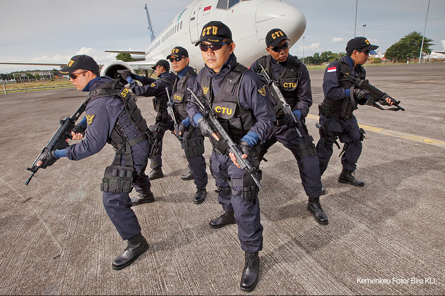 Armed Personnel of the Indonesian Custom and Excise